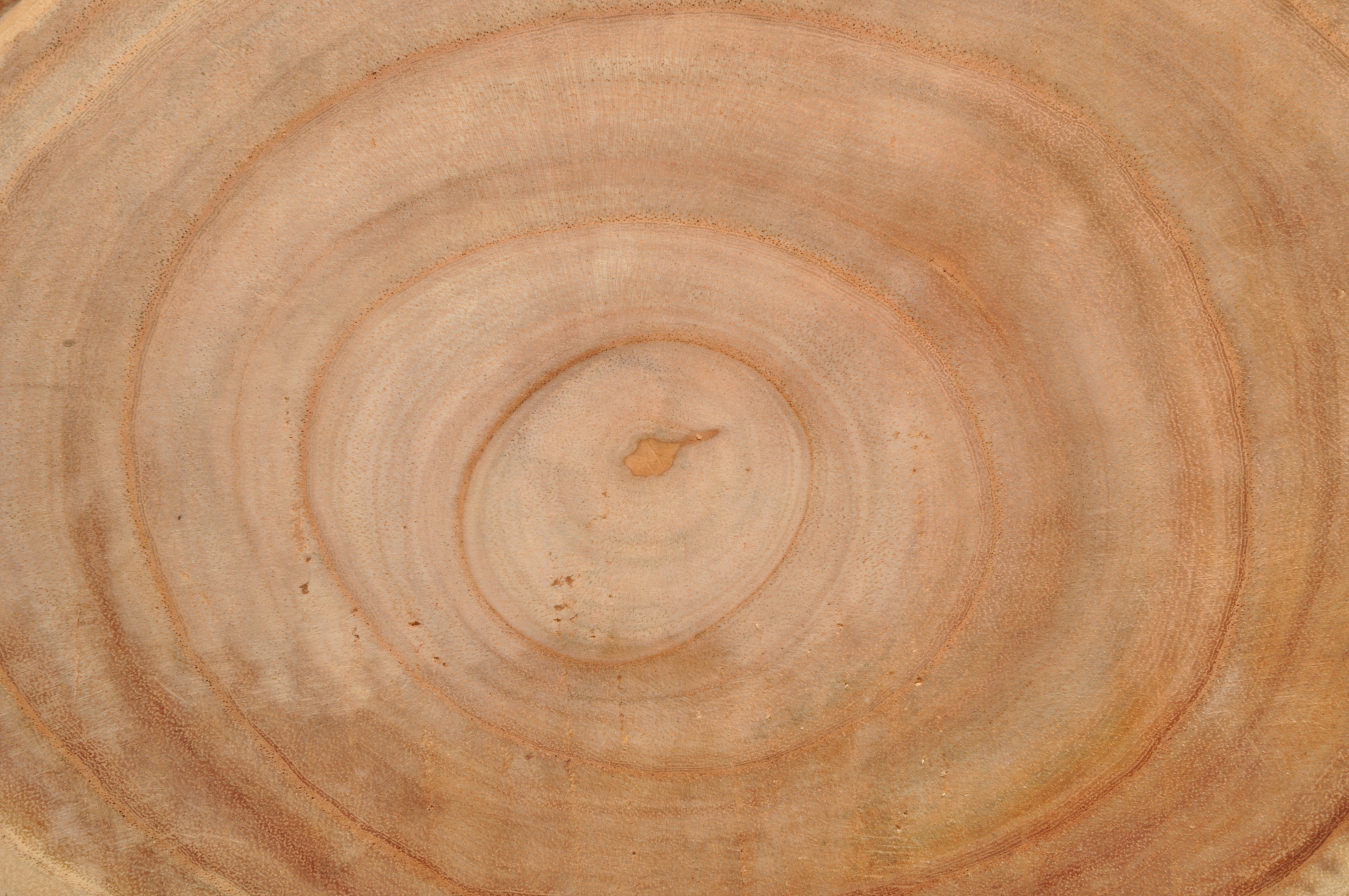 Annular growth rings of unknown wood at Kolkata.